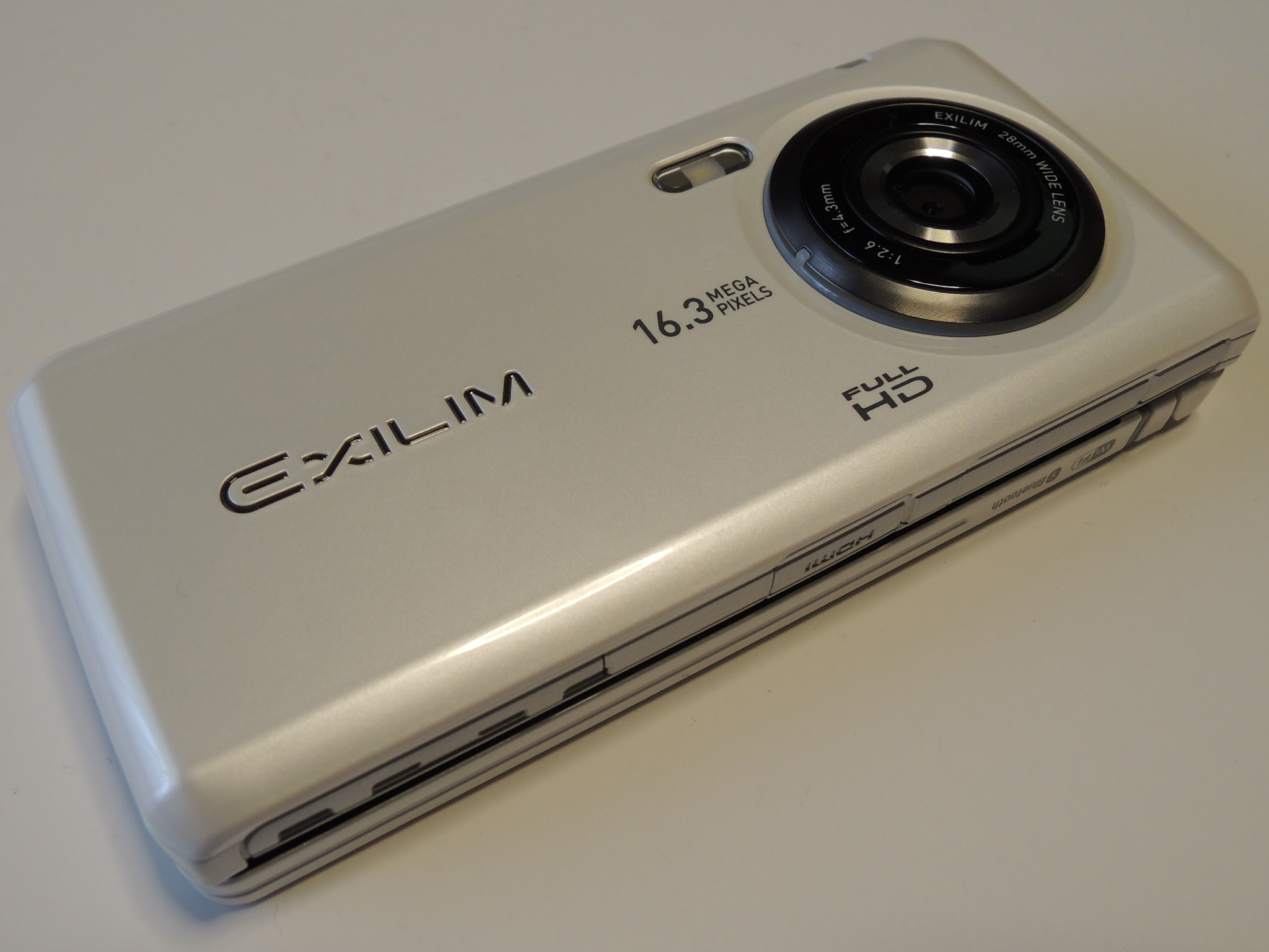 NTT docomo's mobile phone named "CA-01C". This is the color of "Pearl White". (close position lens side)